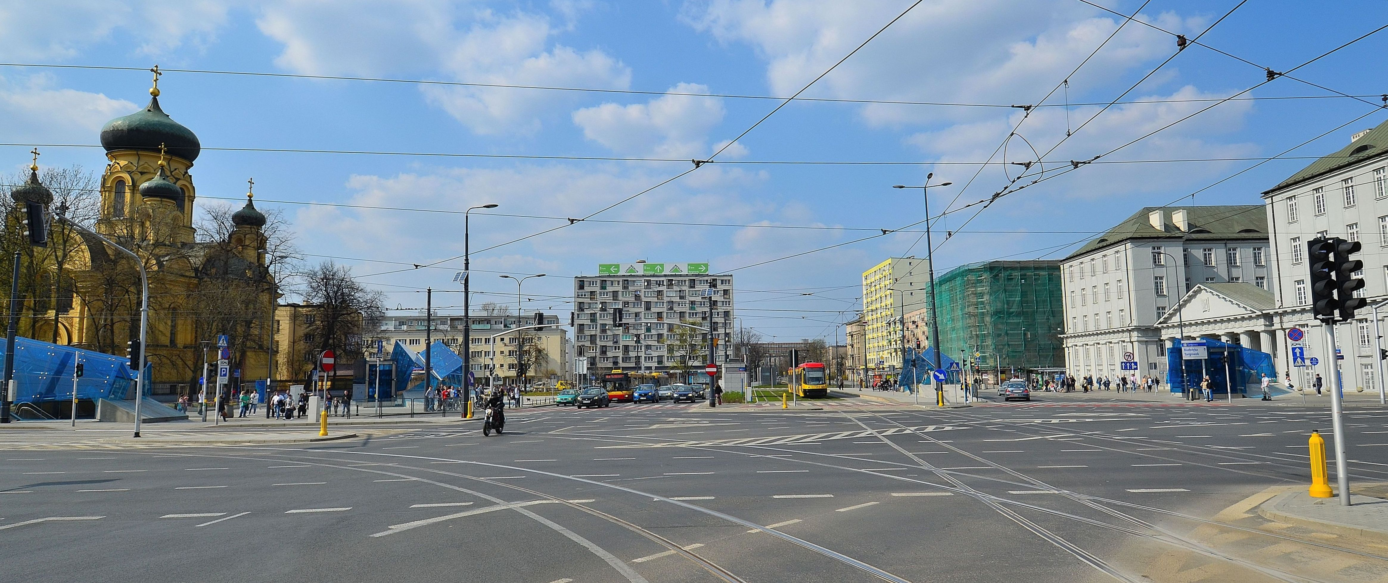 Wileński Square in Warsaw viewed from Solidarność Avenue